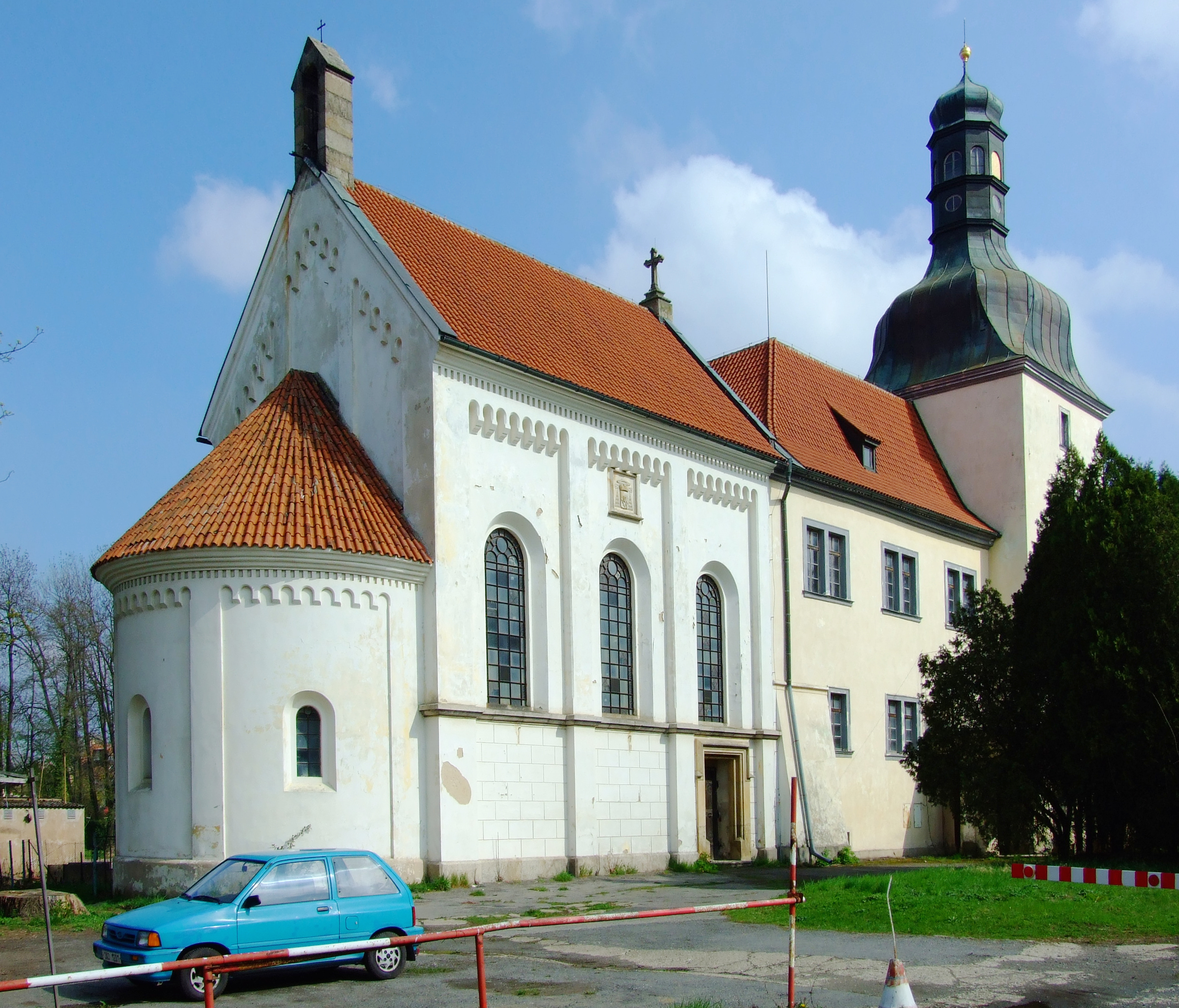 Dolní Břežany village near Prague, CZ; the castle with the St. Maria Magdalena chapel